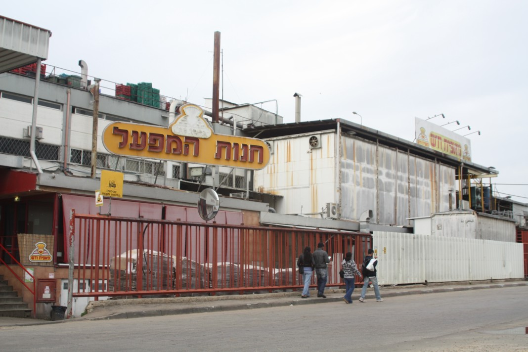 Vadash Bakery